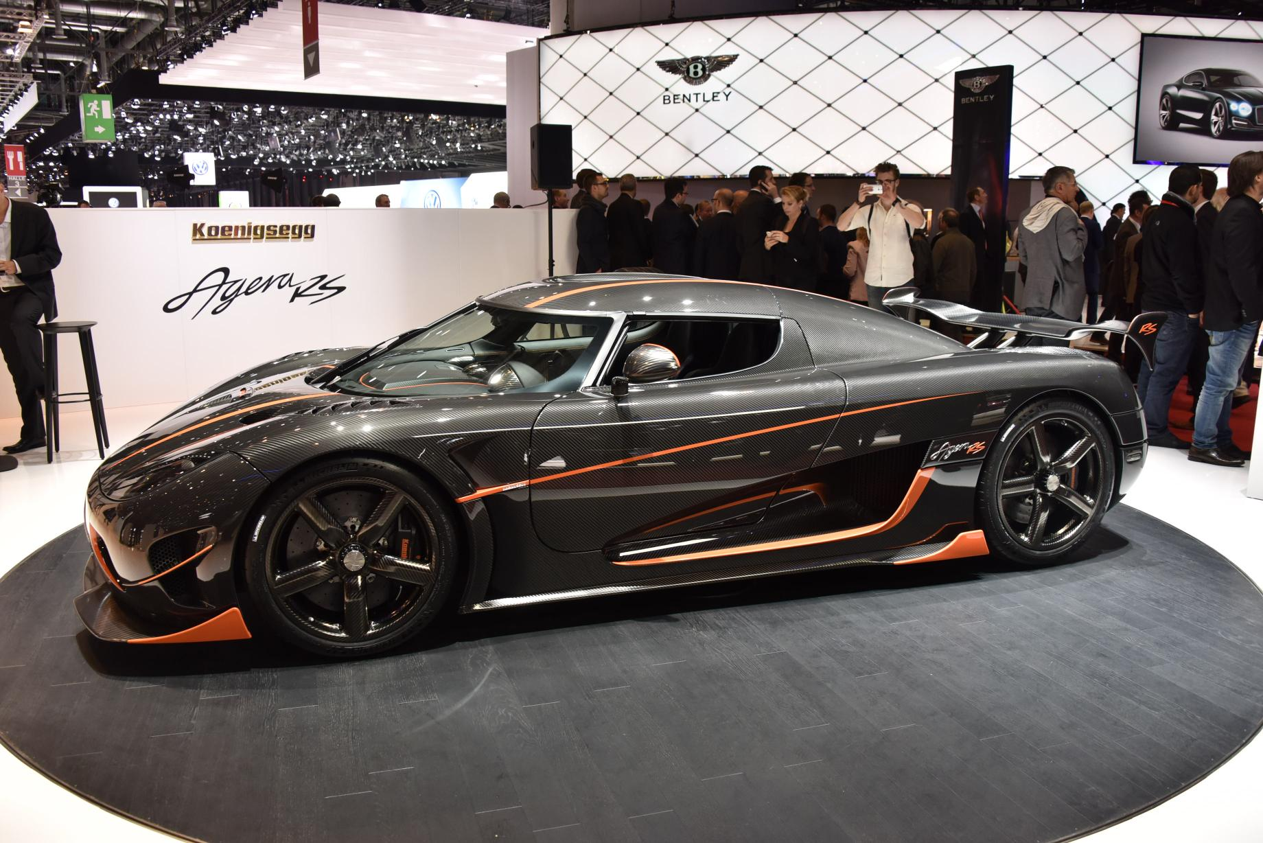 Koenigsegg Agera RS at the Geneva Motor Show 2015